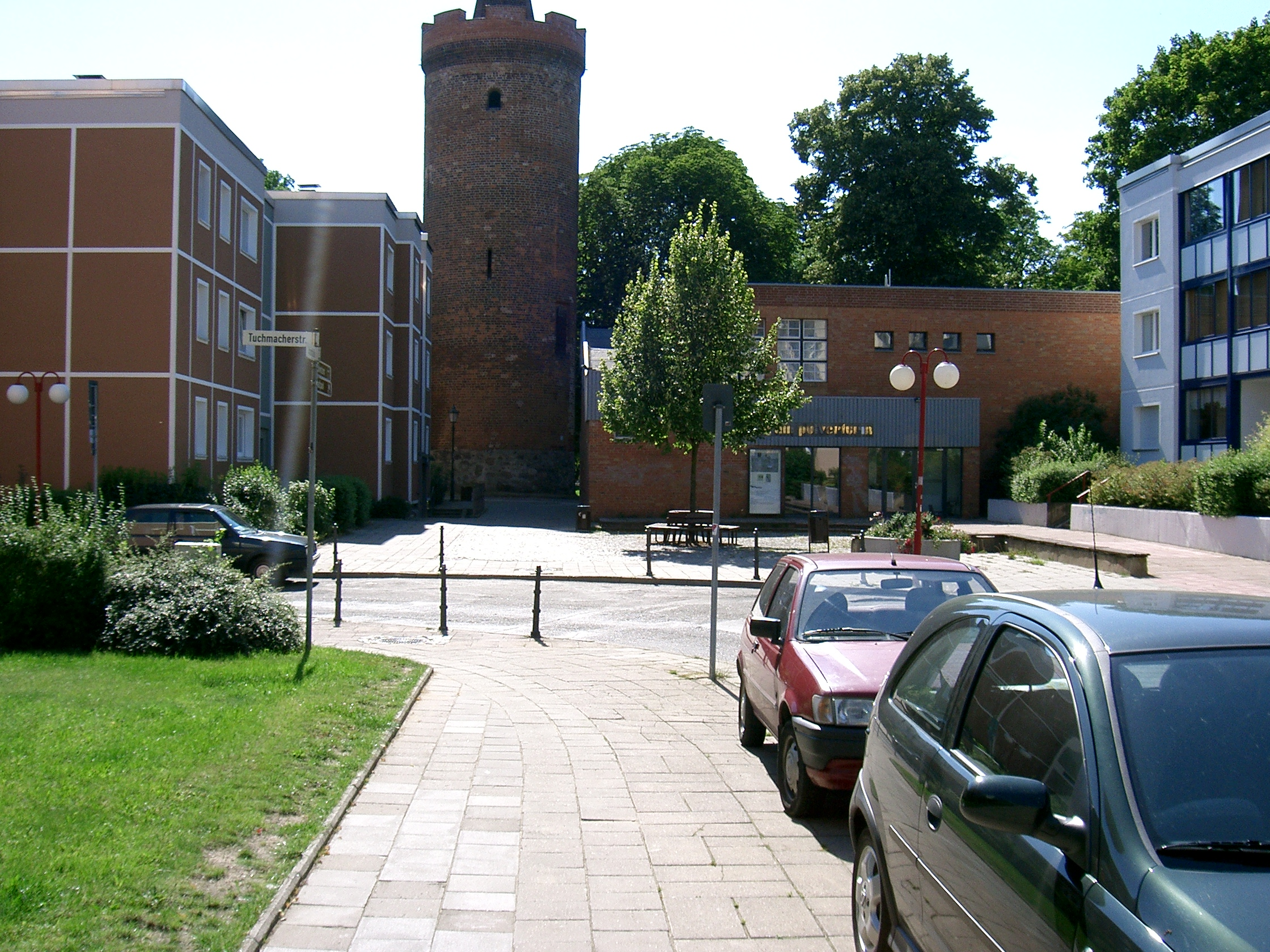 "Pulverturm" (armoury) in Bernau bei Berlin (Germany) and on the right side a former restaurant which is today the Wolf Kahlen Museum. Die Plattenbauten sind vom speziell für Bernau entwickeltem Typ WBR SL 3600, entwickelt vom WGK Frankfurt (Oder). Die Plattenbauten wurden ab 1974 geplant und entwickelt und 1985 fertiggestellt.